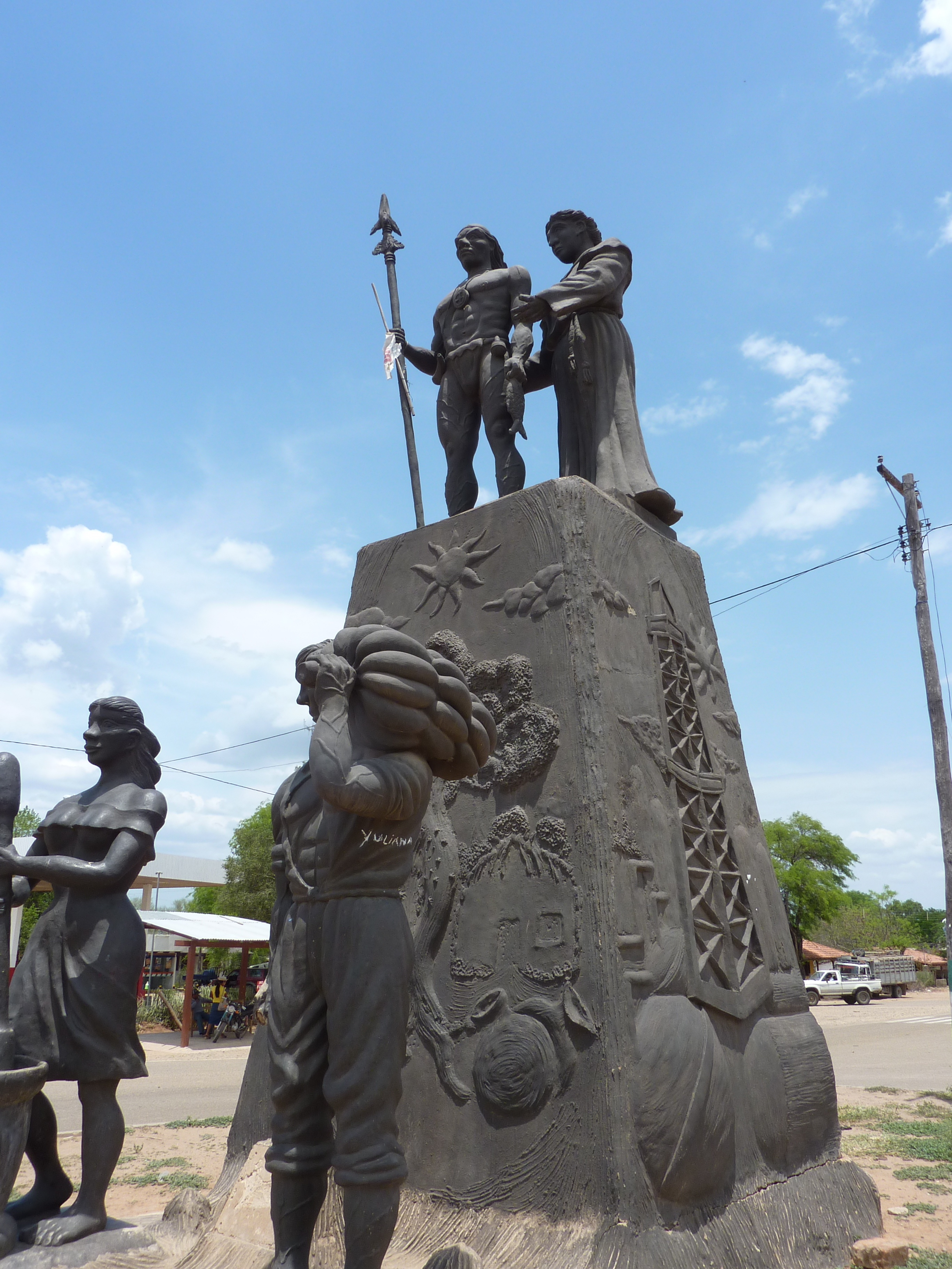 Statue of Fray Francisco del Pilar in Cabezas Bolivia. A statue built to commemorate Fray Francisco del Pilar, an early Spanish missionary to the Chaco and the Guarani people.